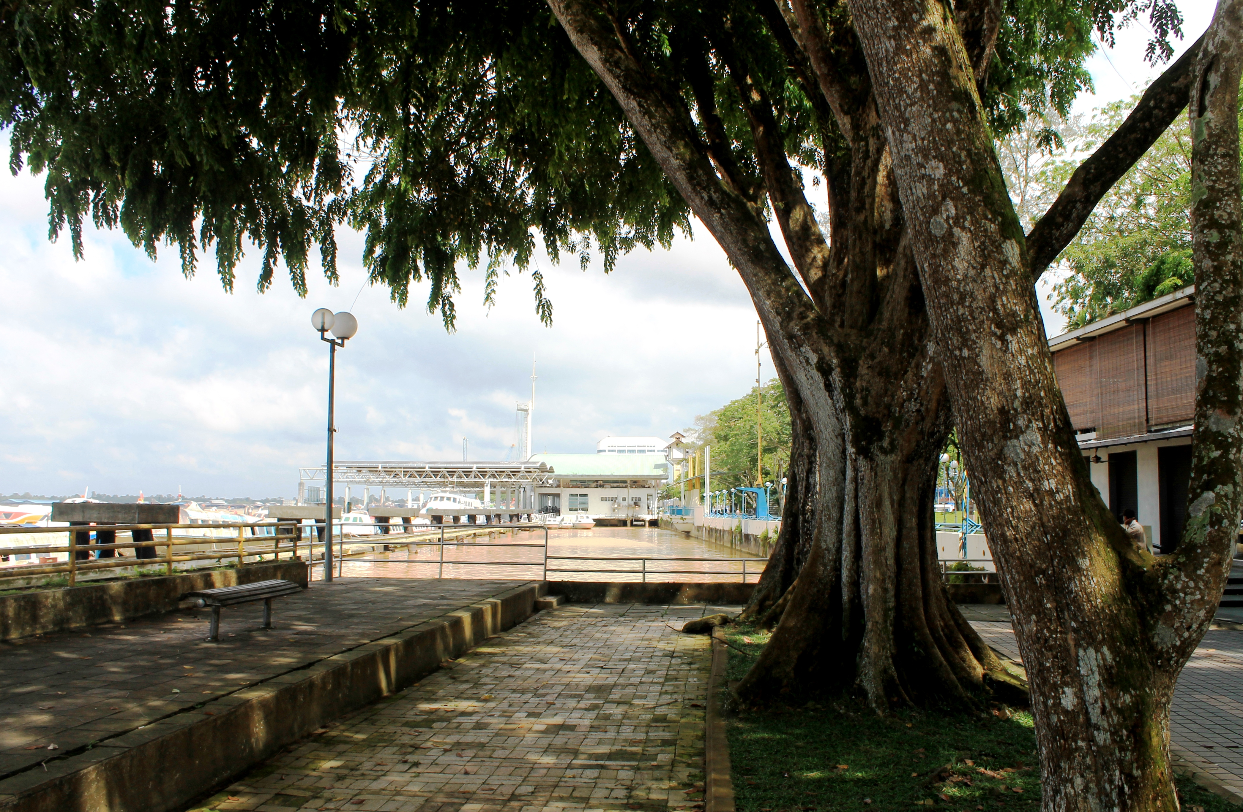 Rajang Esplanade park. The wharf terminal is in the background.